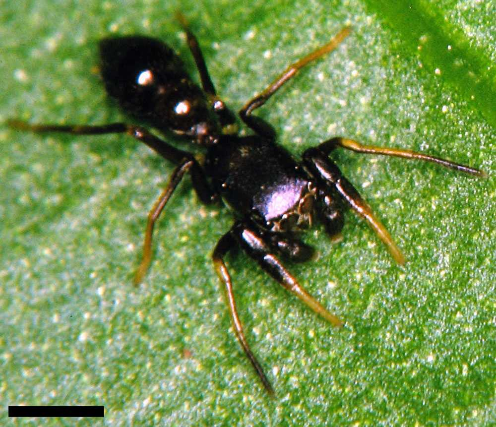 Female Peckhamia americana jumping spider from vicinity of Gainesville, Alachua County, Florida, USA